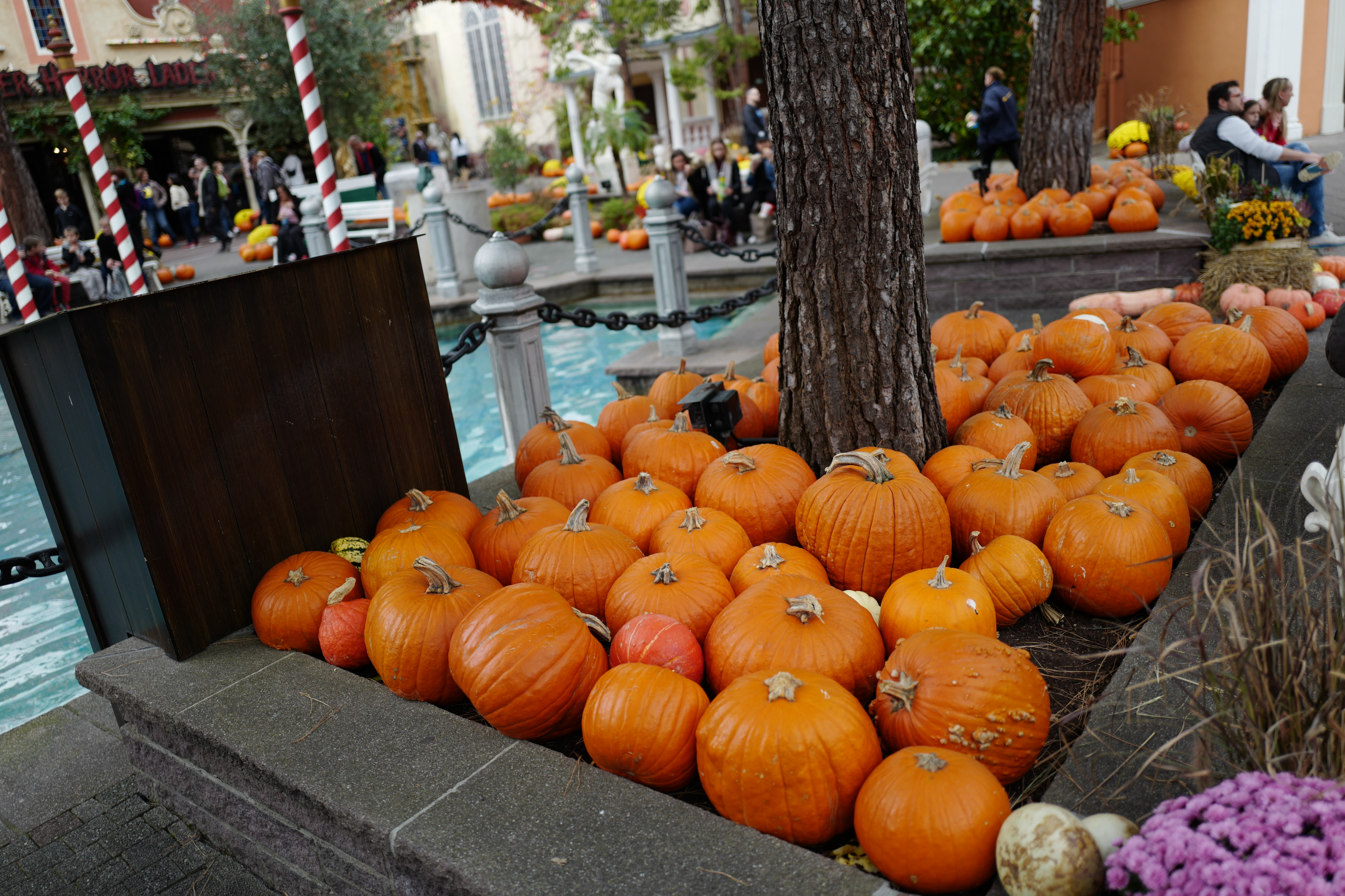 Numerous at during Halloween season 2017.